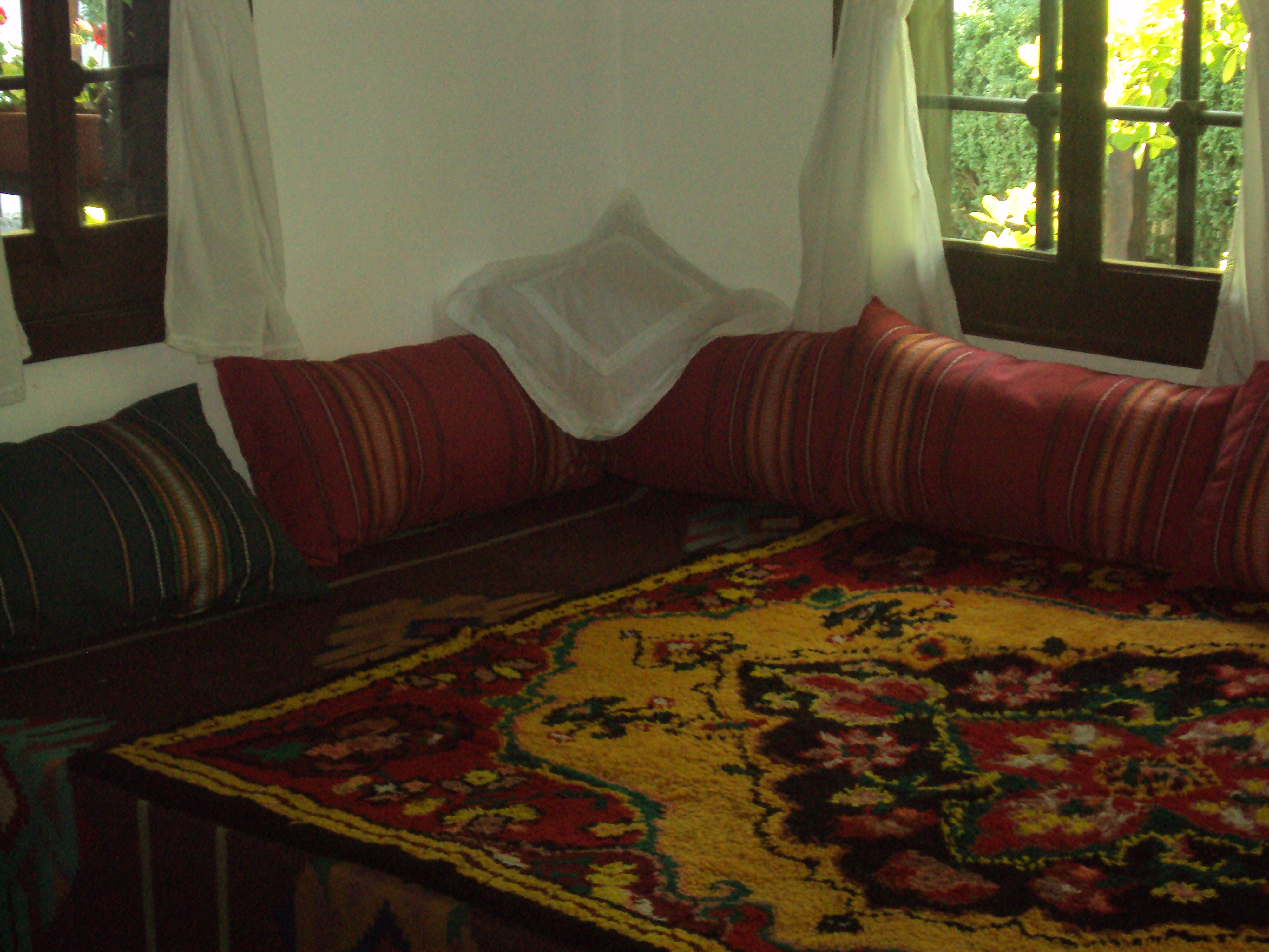 The house-museum of Ivan Vazov in town of Sopot